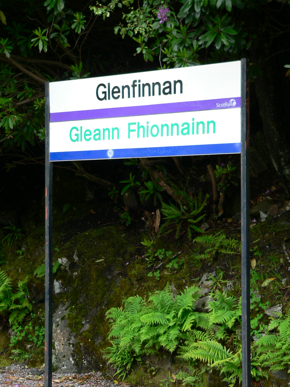 The bilingual station sign at Genfinnan (Englsih)/Gleann Fhionnainnan in Scottish Gaelic on the West Highland Line in Scotland.